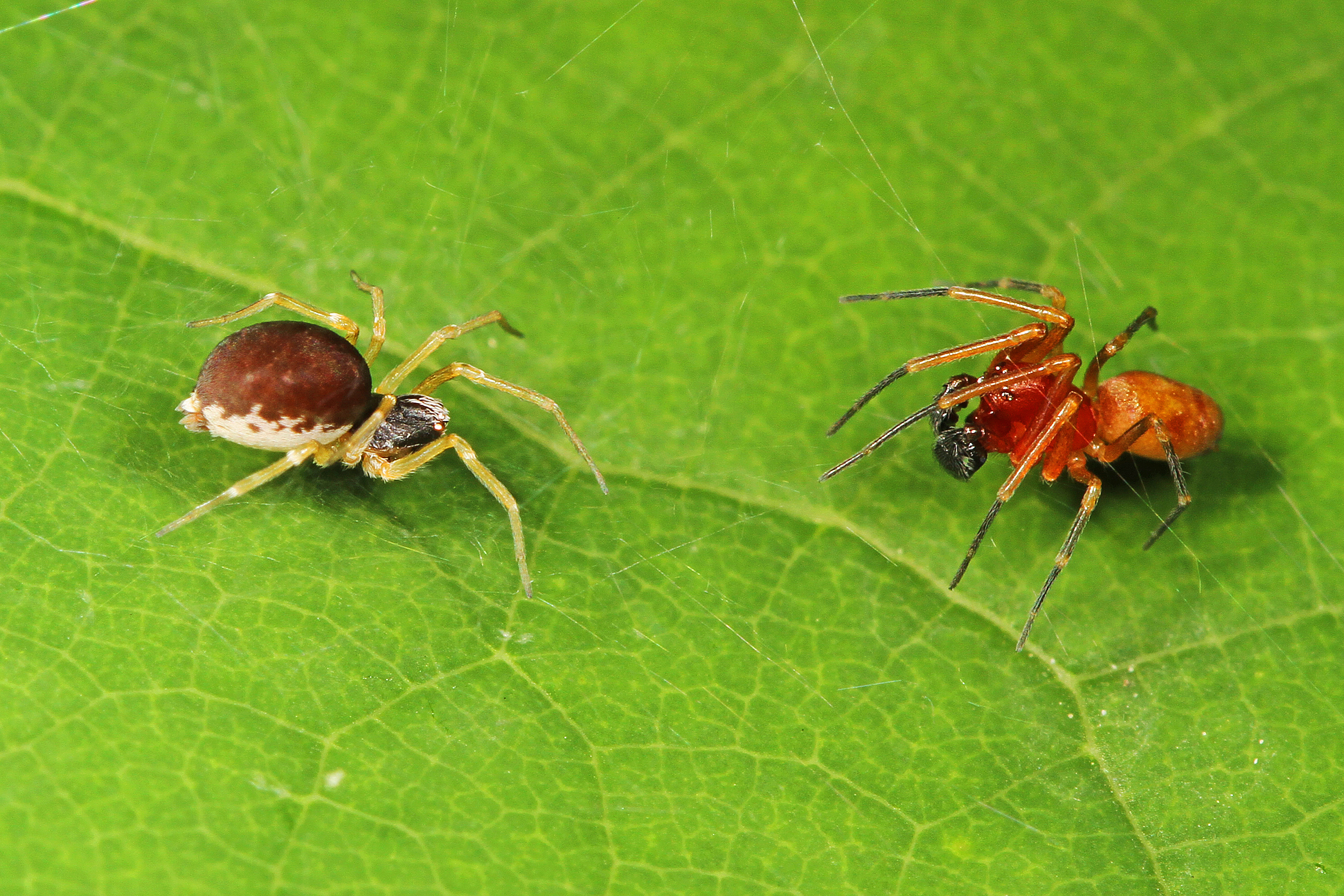 Mesh Web Weavers - Emblyna species, Leesylvania State Park, Woodbridge, Virginia. This is a good example of sexual dimorphism. The male, on the right, is courting the female, on the left.